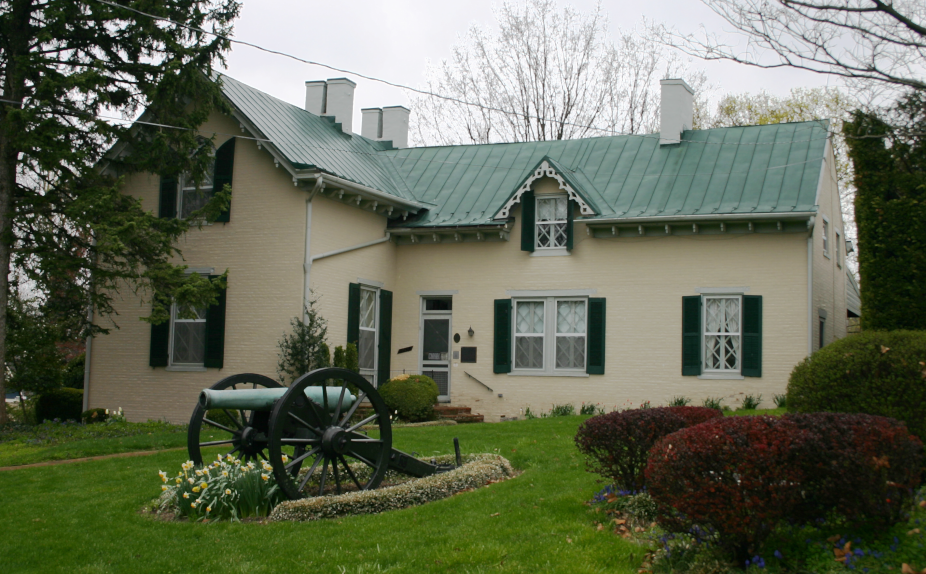 author:anonymous source:Canon REBEL digital camera